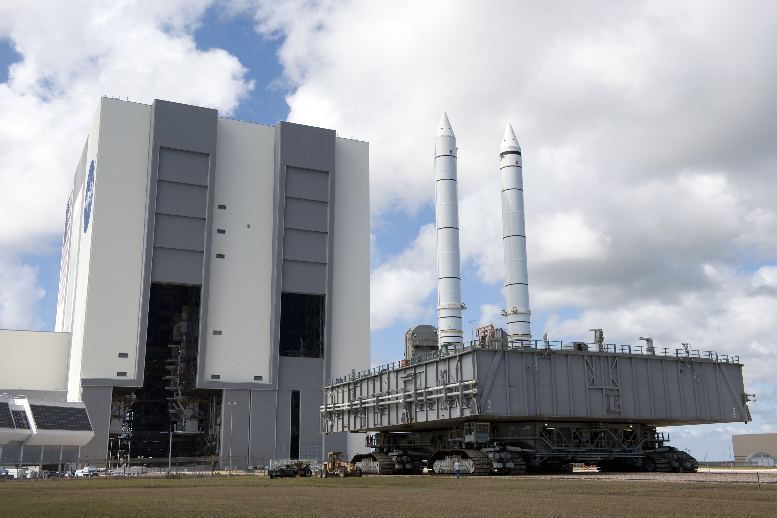 CAPE CANAVERAL, Fla. – At NASA's Kennedy Space Center in Florida, a crawler-transporter moves a mobile launcher platform with two solid rocket boosters perched on top from the Vehicle Assembly Building's (VAB) High Bay 1 to High Bay 3. Inside the VAB, the boosters will be joined to an external fuel tank next month in preparation for space shuttle Endeavour's STS-134 mission to the International Space Station targeted to launch in February, 2011. For more information visit